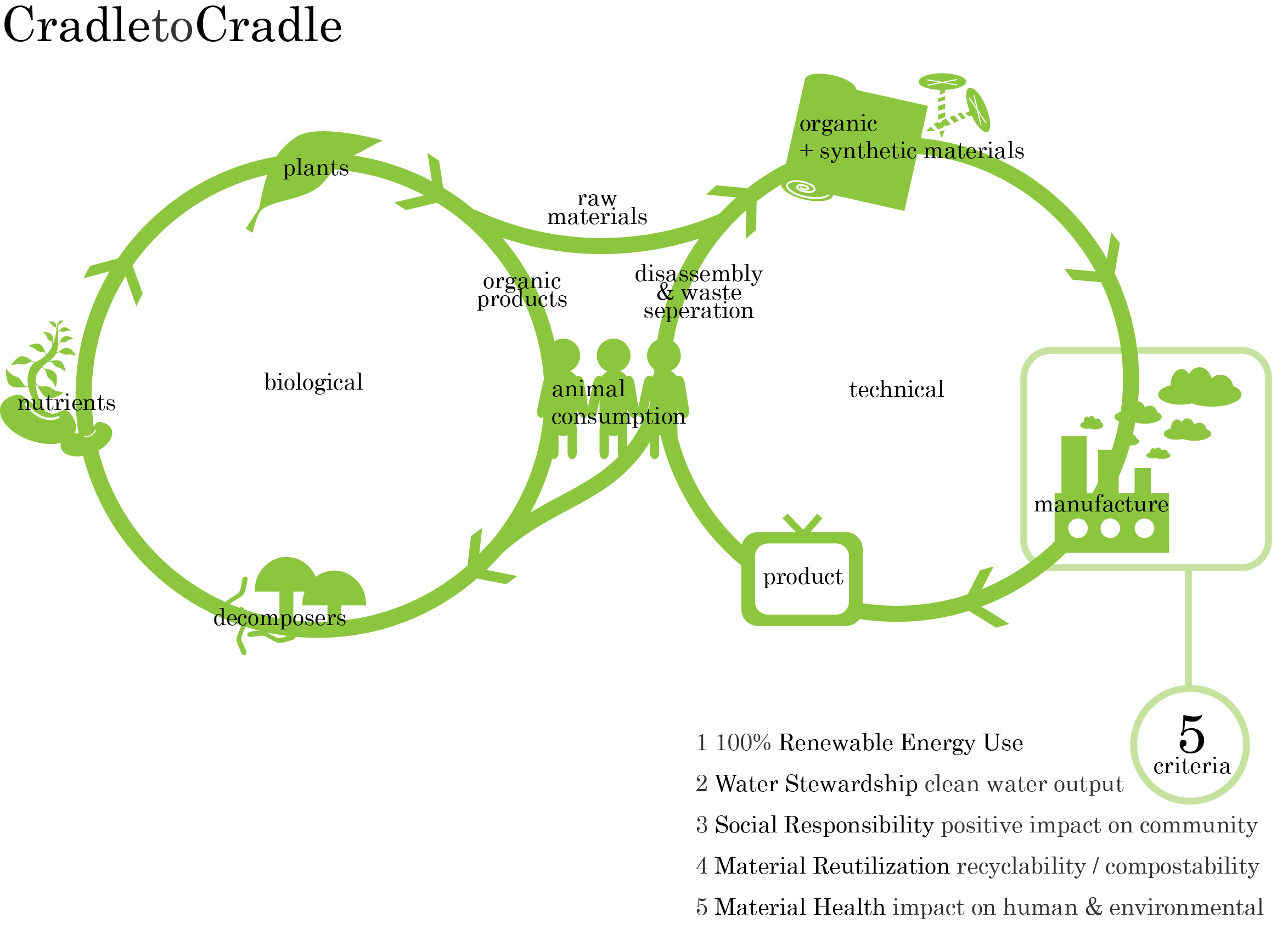 Biological and Technical Nutrients in the Cradle to Cradle Design Framework